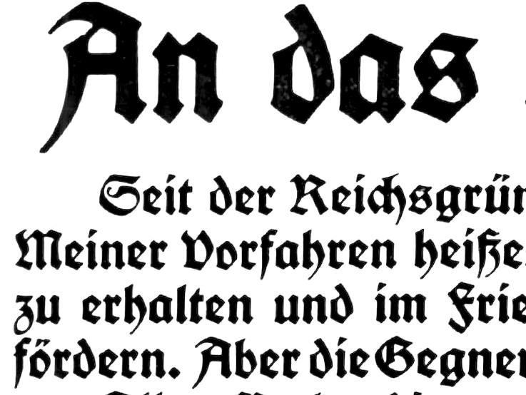 Fraktur type. Detail from a poster of Kaiser Wilhelm II's address to the German people, at the outbreak of the First World War, 4 August 1913.